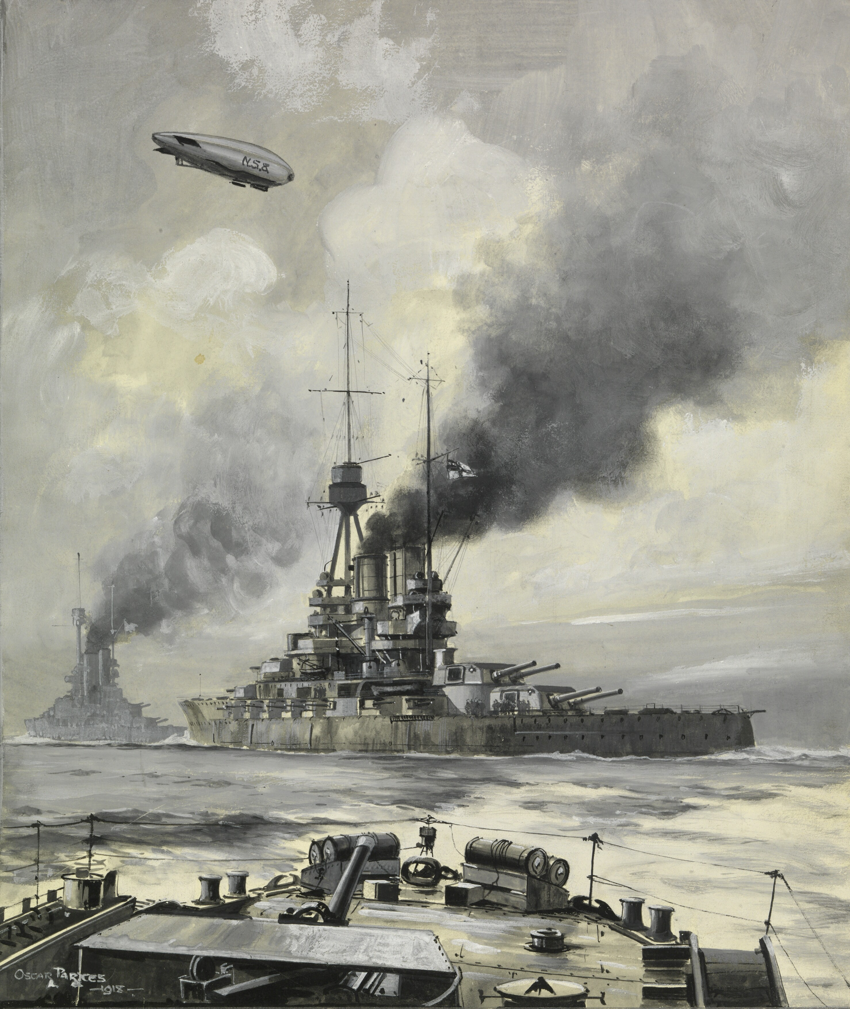 The Pride of the German Fleet' - the battleship "Bayern", the first German ship to carry 15-inch guns, surrenders, never having fired her guns in action Image: View over the bow of a warship, of a large capital warship under way, from the stern port quarter. Another warship is line ahead and an airship is above. Support : Paper, medium : wash.